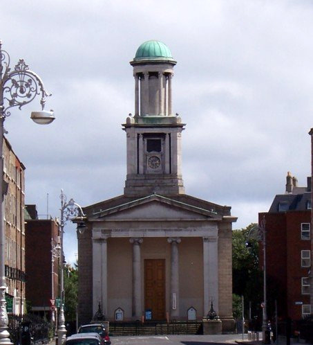 St. Stephen's Church, Mount Street, Dublin.